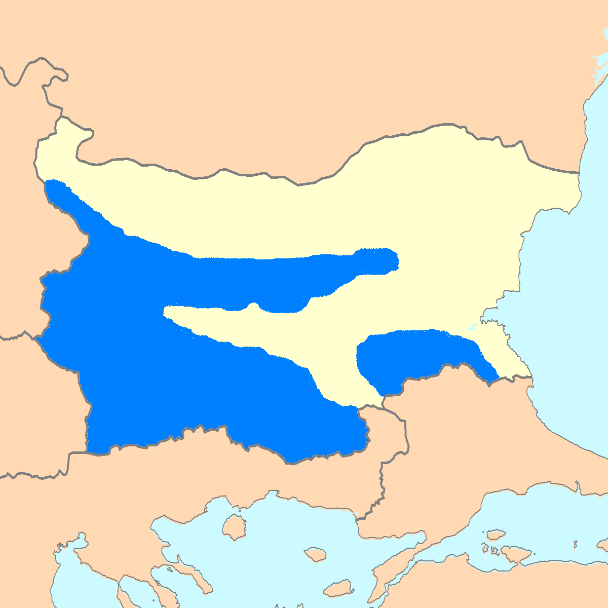 Karakachan Sheep area of distribution